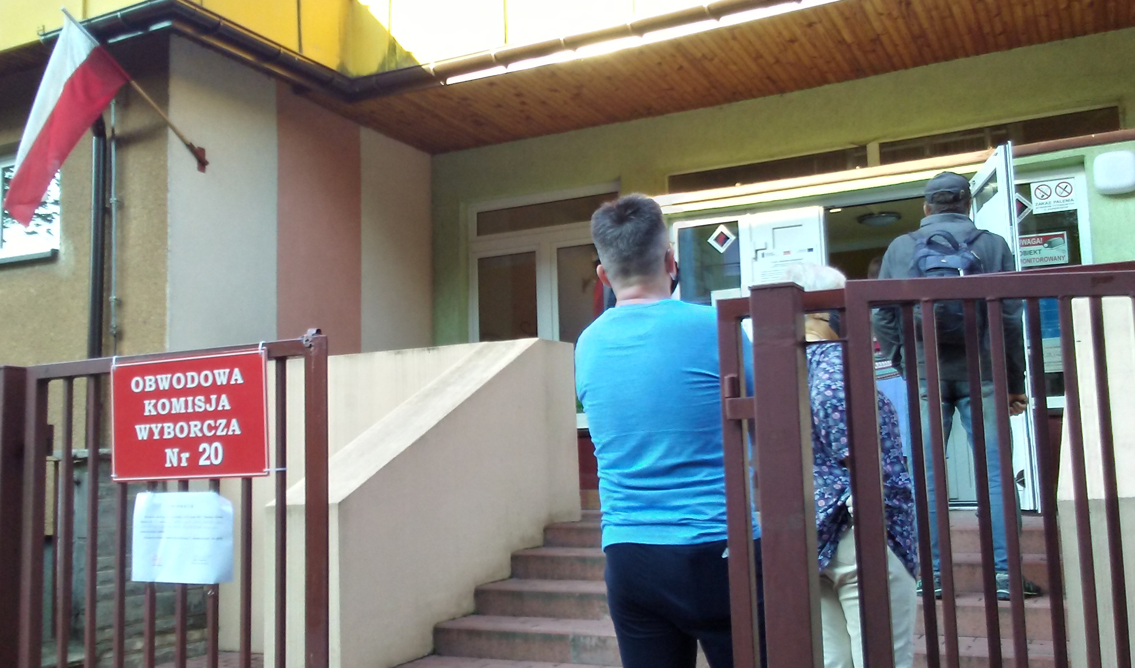 Presidential election in Poland, June 2020, Tomaszów Mazowiecki